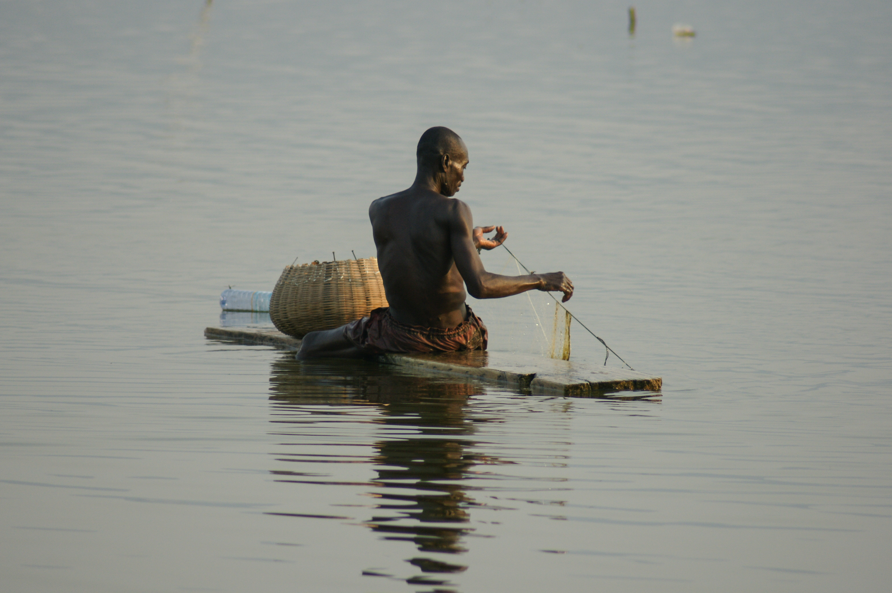 A man fishing on a wooden board on the Volta Lake, Ghana This is an image of "African people at work" from Ghana